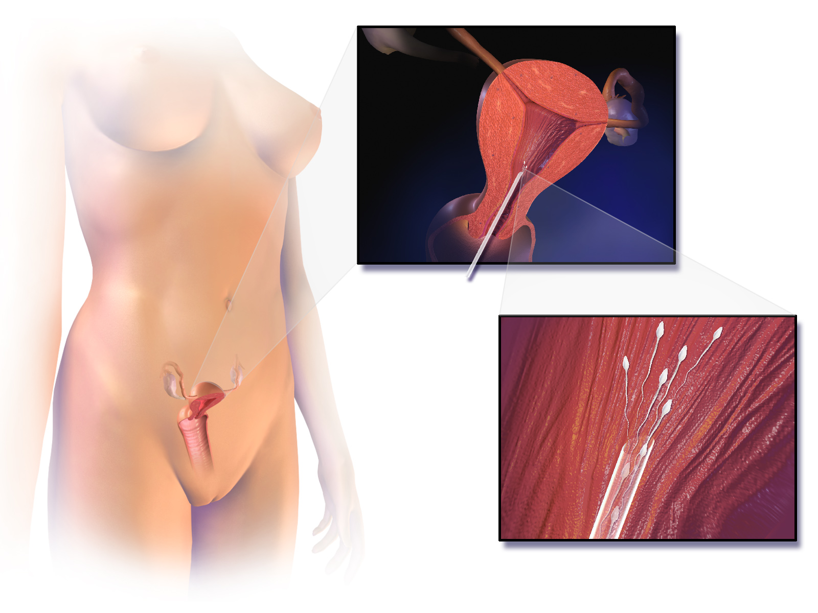 Artificial Insemination. This image was donated by Blausen Medical. Please visit our website to see more medical illustrations and animations.